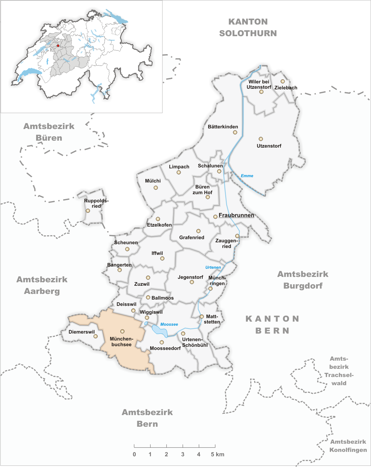 Municipality Münchenbuchsee